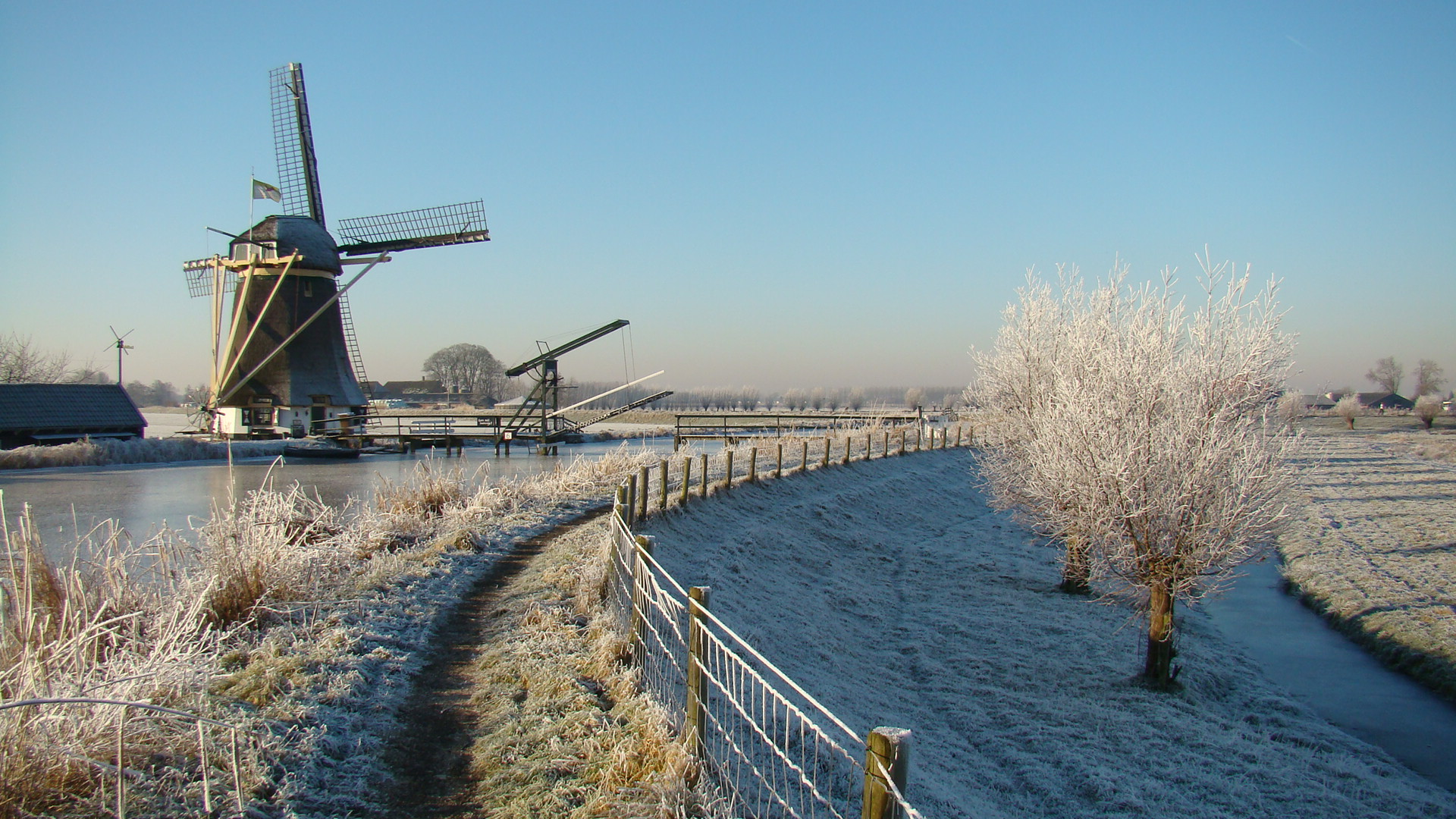 Windmill "Hoog- en Groenland" at Baambrugge, the Netherlands